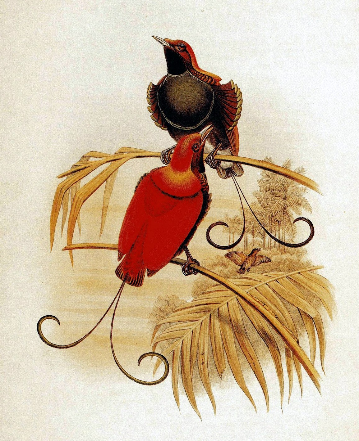 King of Holland's Bird of Paradise